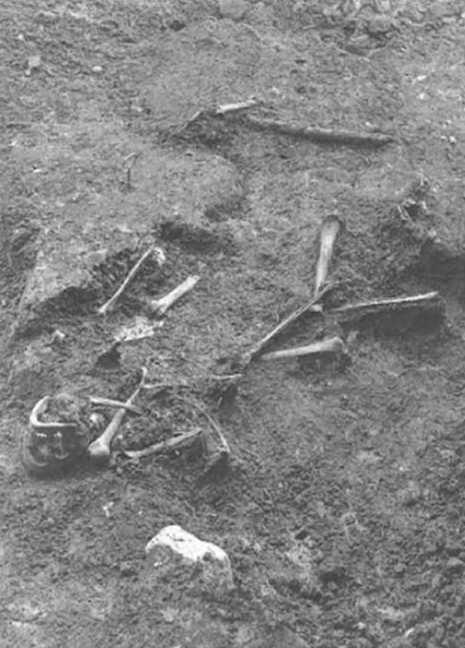 Human remains found in findspt C in Rappendam bog in Denmark in 1941. Dated to ca. 160 BC to 12 AD.